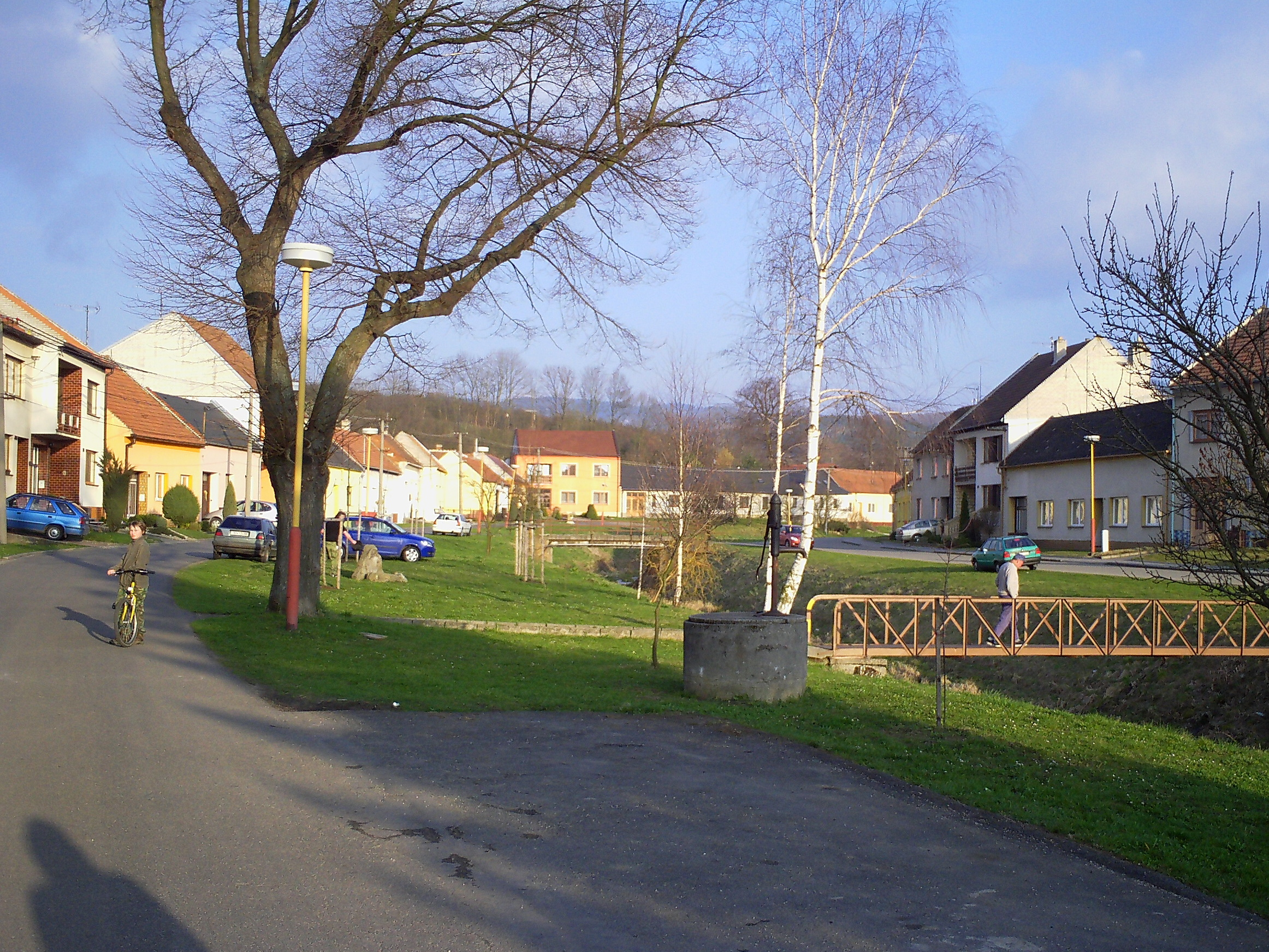 Suchá Loz in Uherské Hradiště District, Czech Republic. Common.